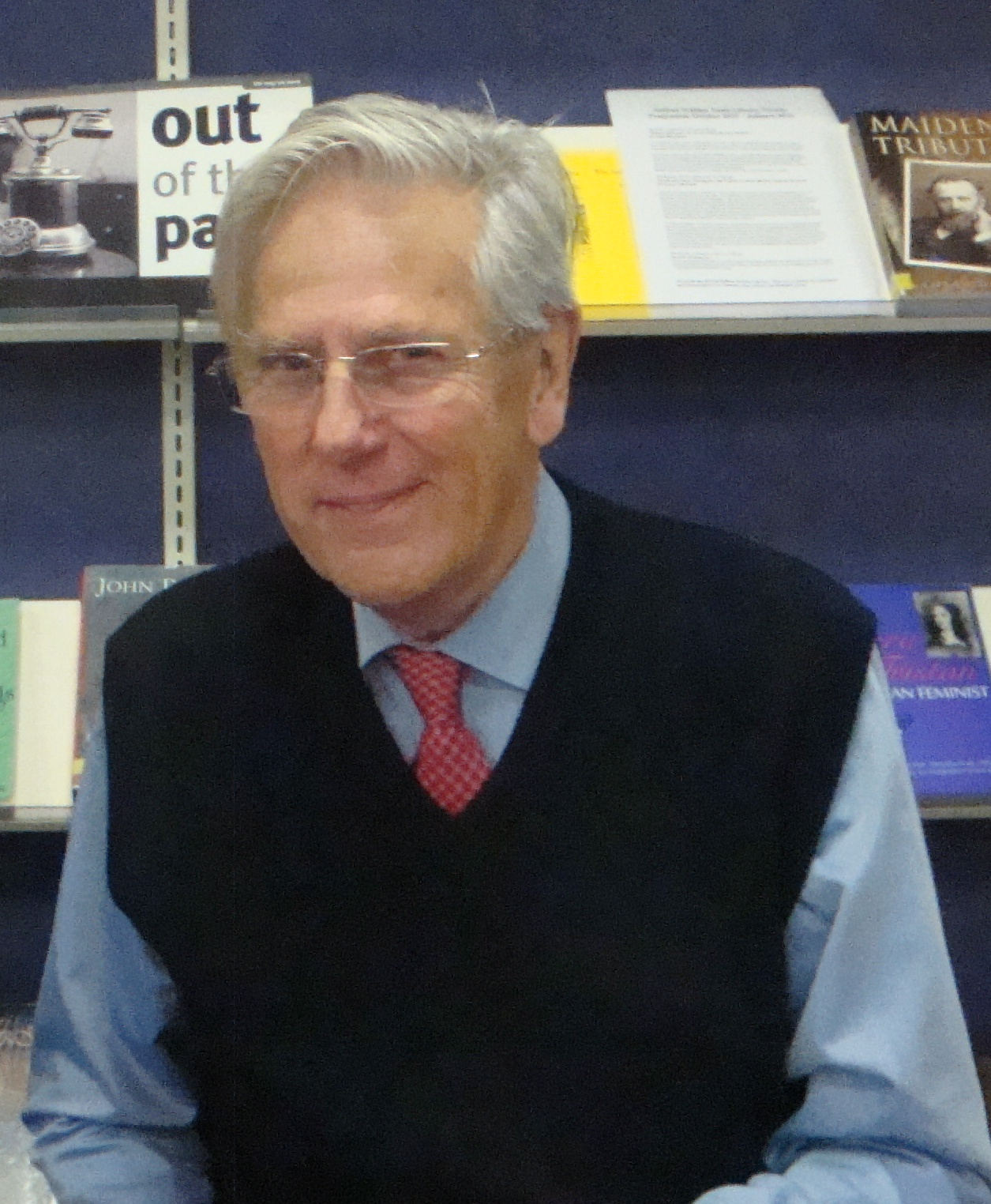 portrait of author Victor Watson